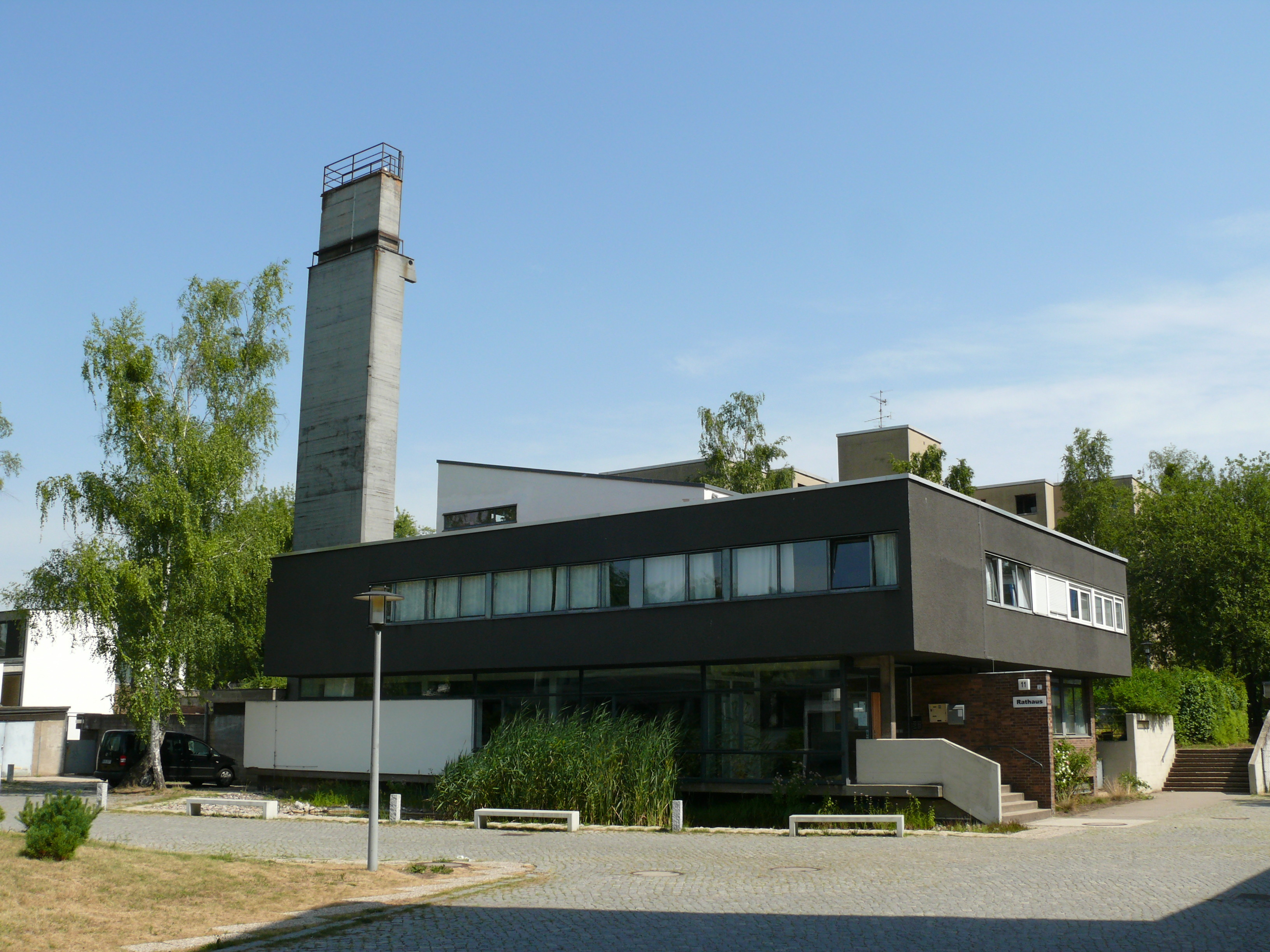 Berlin-Nikolassee Studentendorf Schlachtensee